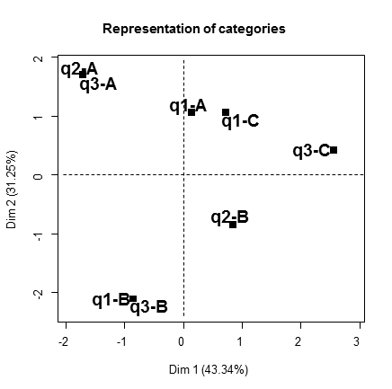 MFA. Test data. Representation of levels of categorical variables.